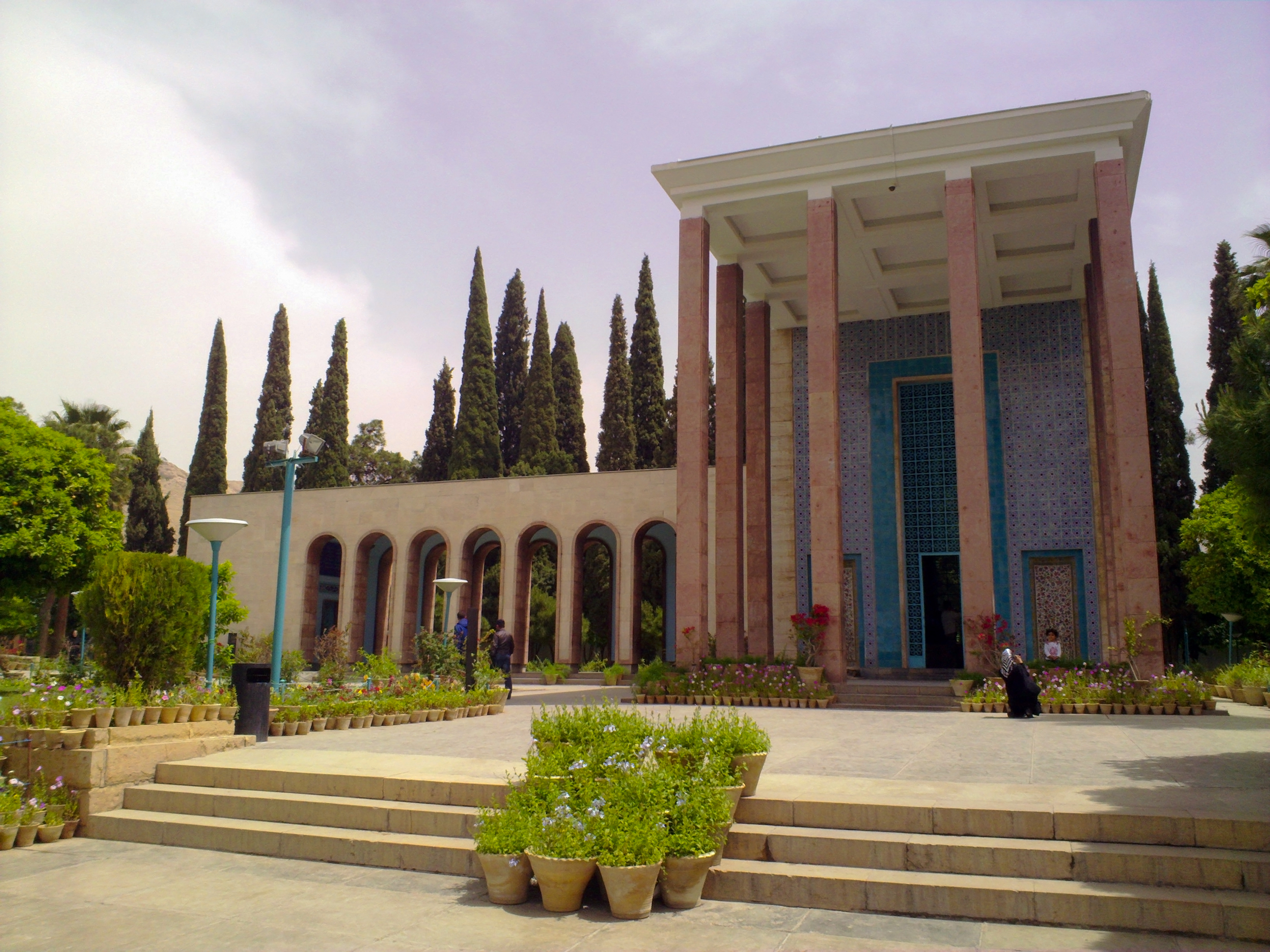 The Tomb of Saadi is a tomb and mausoleum dedicated to the Persian poet Saadi in the Iranian city of Shiraz. Saadi was buried at the end of his life at a Khanqah at the current location. In the 13th century a tomb built for Saadi by Shams al-Din Juvayni, the vizir of Abaqa Khan. In the 17th century, this tomb was destroyed.